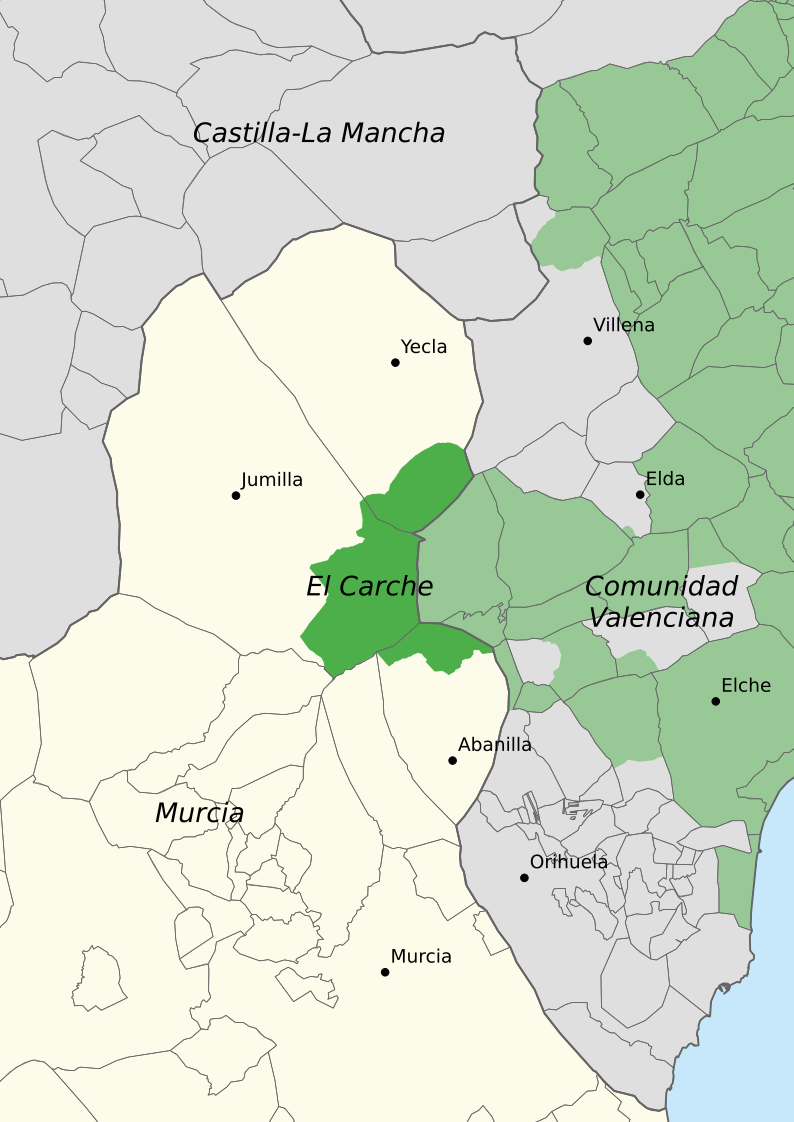 Localization of the Carxe (according to Toponímia del Carxe, of Esther Limorti) in the Region of Murcia.